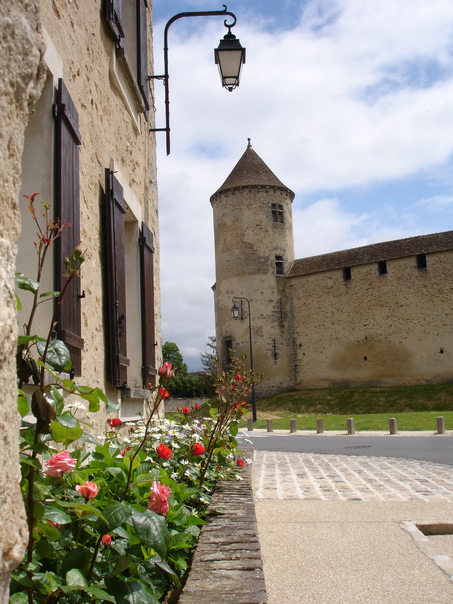 France, Seine-et-Marne, Blandy-les-Tours, Castle